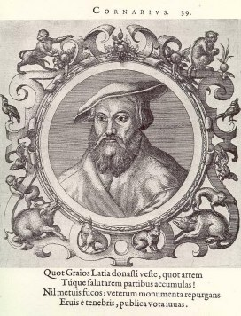 Iano Cornarius (also Janus; 1500-1558) of Zwickau, M.D., author and Dean of the University of Jena (Medizinische Fakultät)